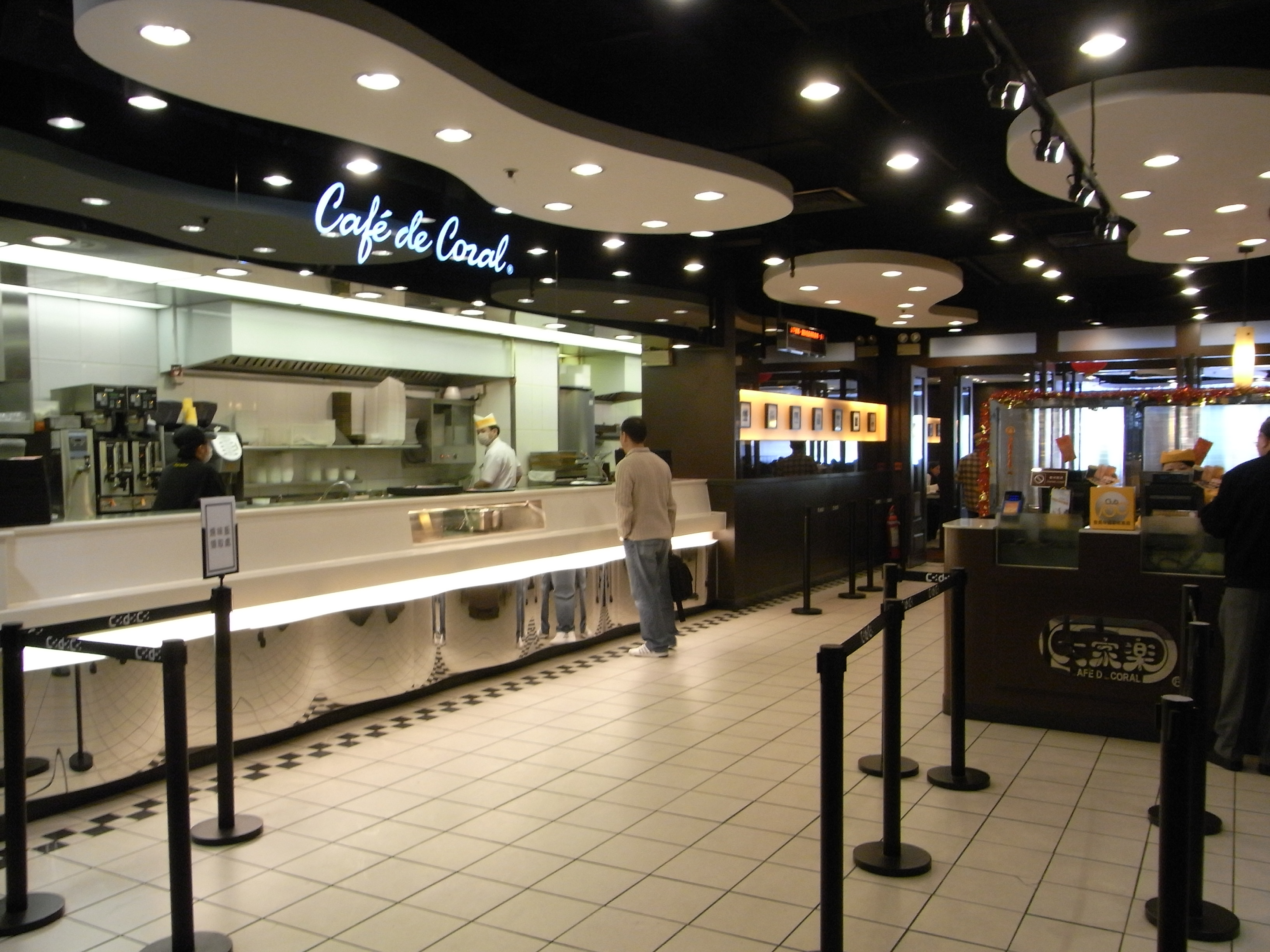 香港金鐘 遠東金融中心 大家樂